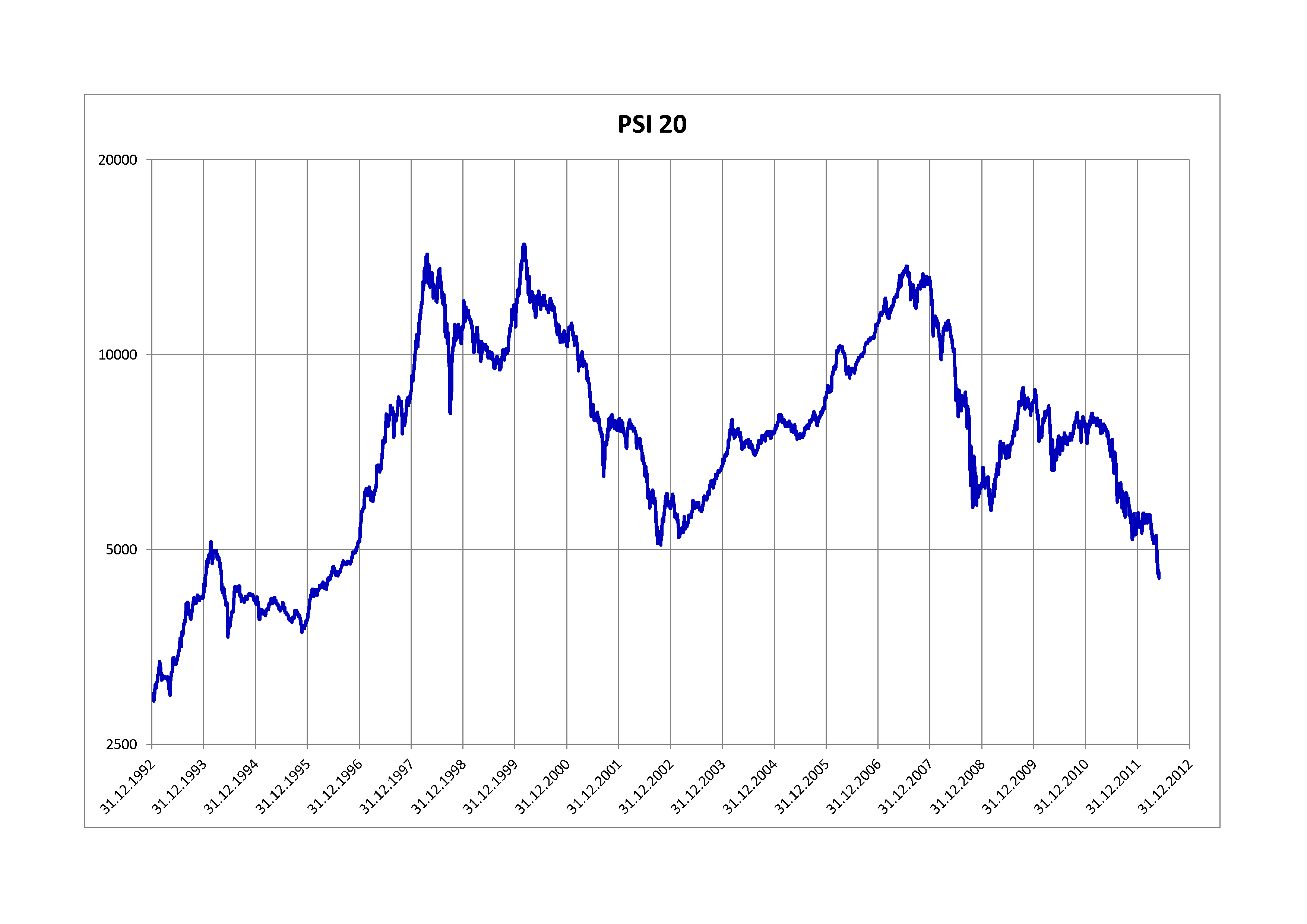 PSI 20 from December 1992 to May 2012 (daily closings)